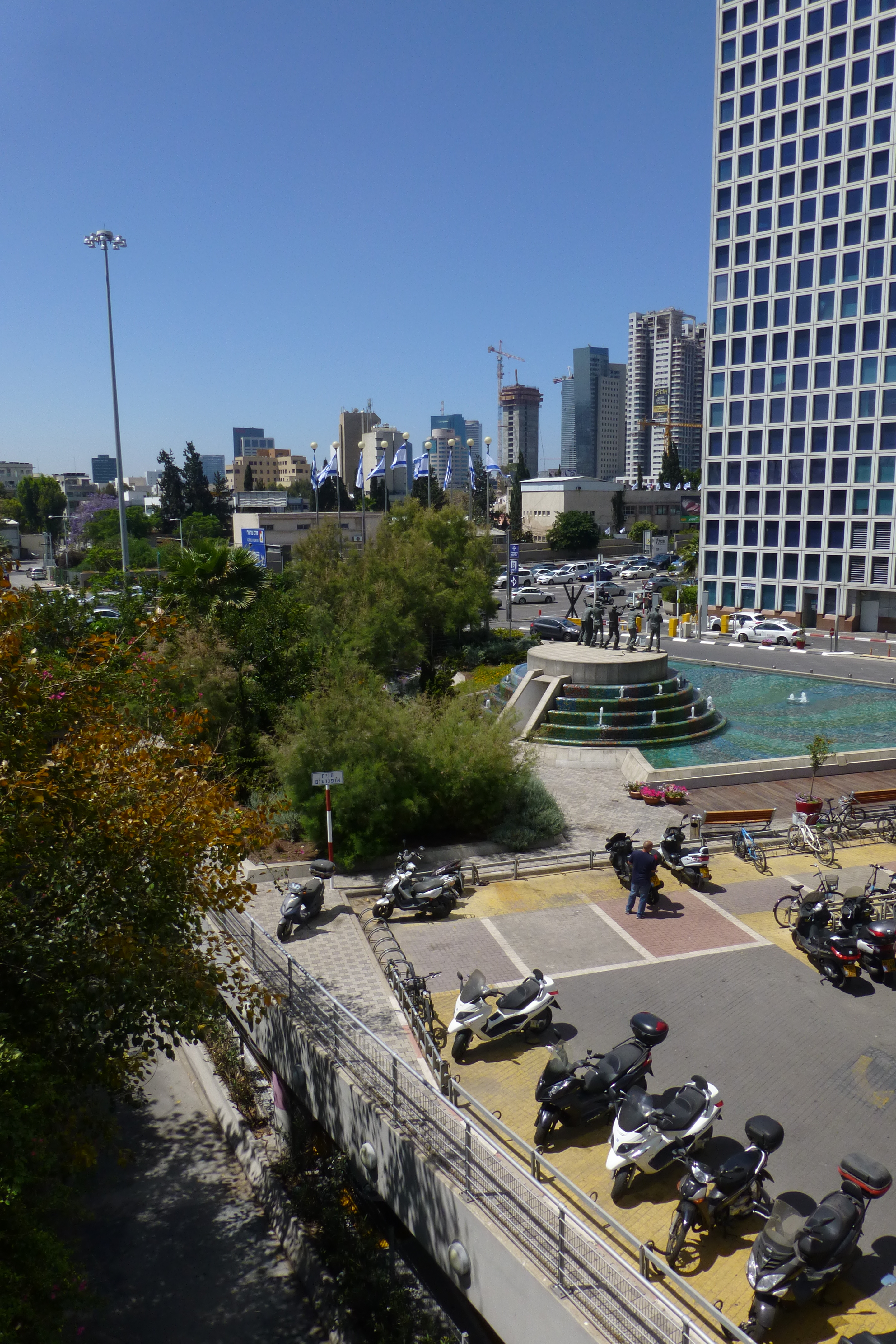 Azriely Towers